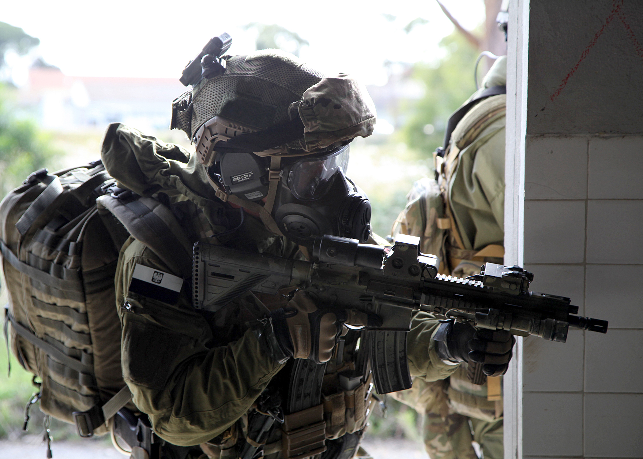 A soldier in the Polish Multi-role exploitation Reconnaissance Team (MRT) conducts a security check of the a building suspected of having hazardous material in Lisbon, Portugal on October 29, 2015 during NATO exercise Trident Juncture 15.